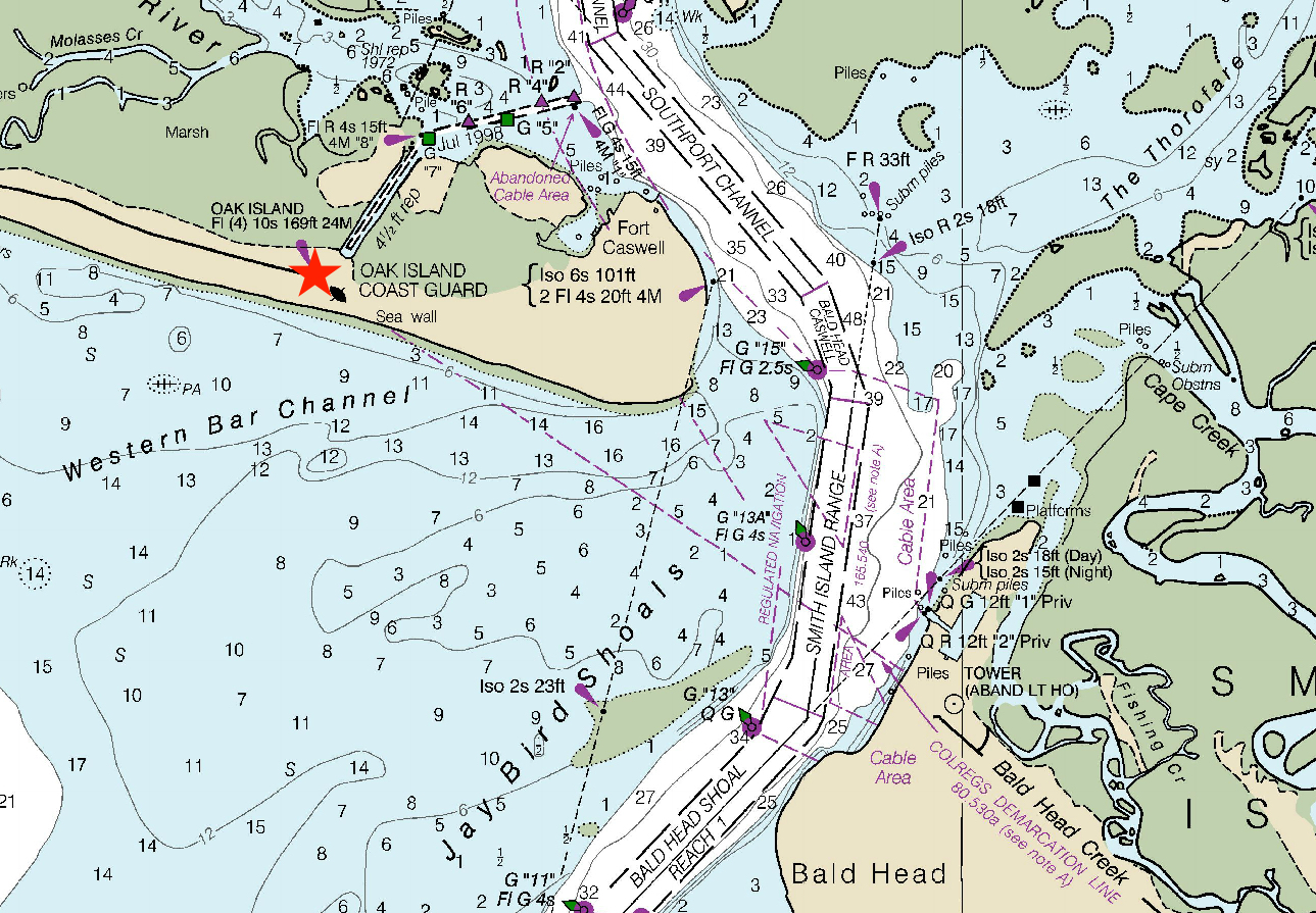 Portion of the nautical chart that shows the location of the Oak Island Light.